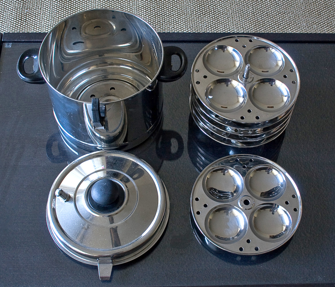 Vessels used to make idlis (South Indian breakfast). The idli platters, make a total of 24 idlis (4 per platter).